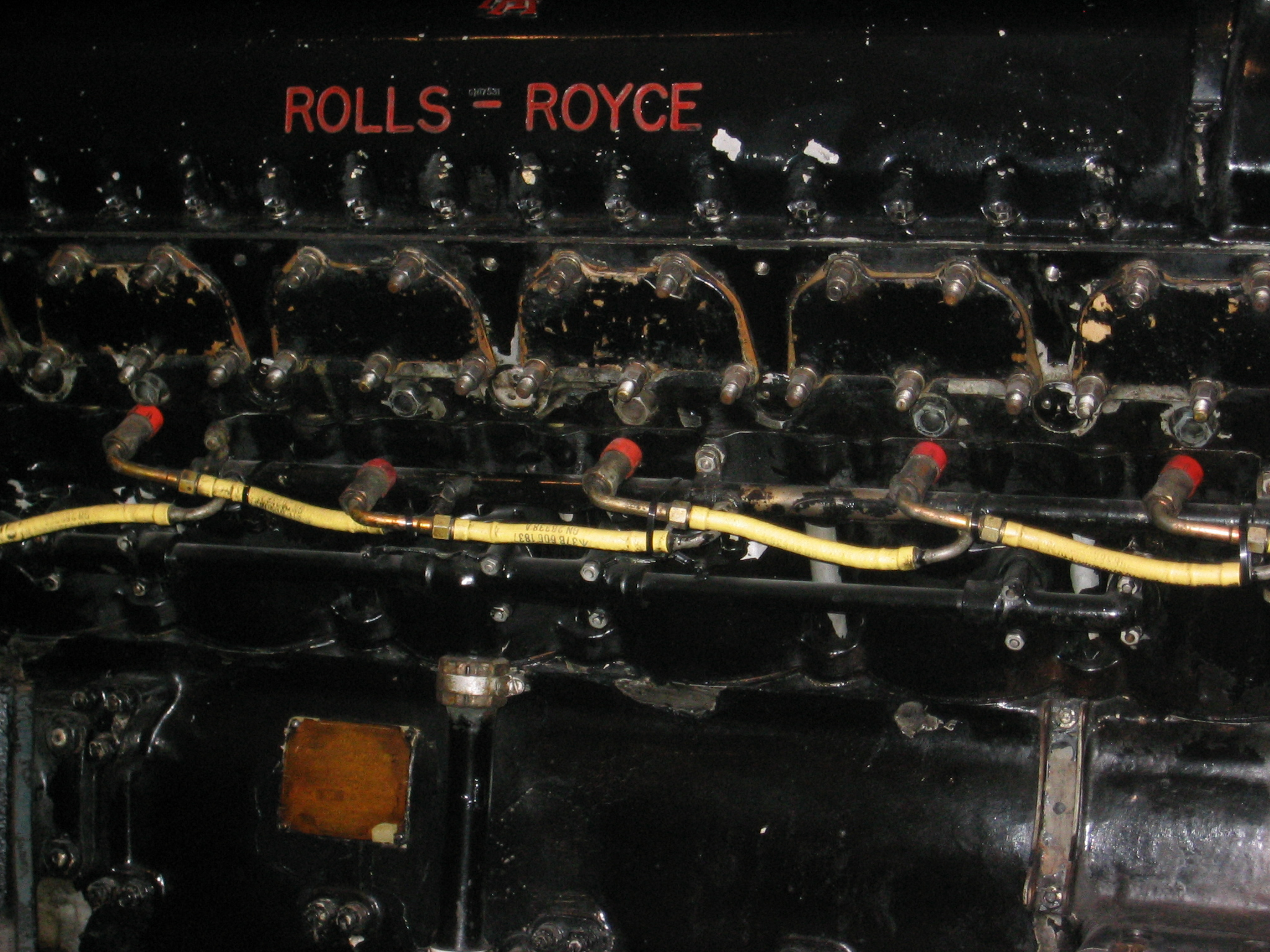 London